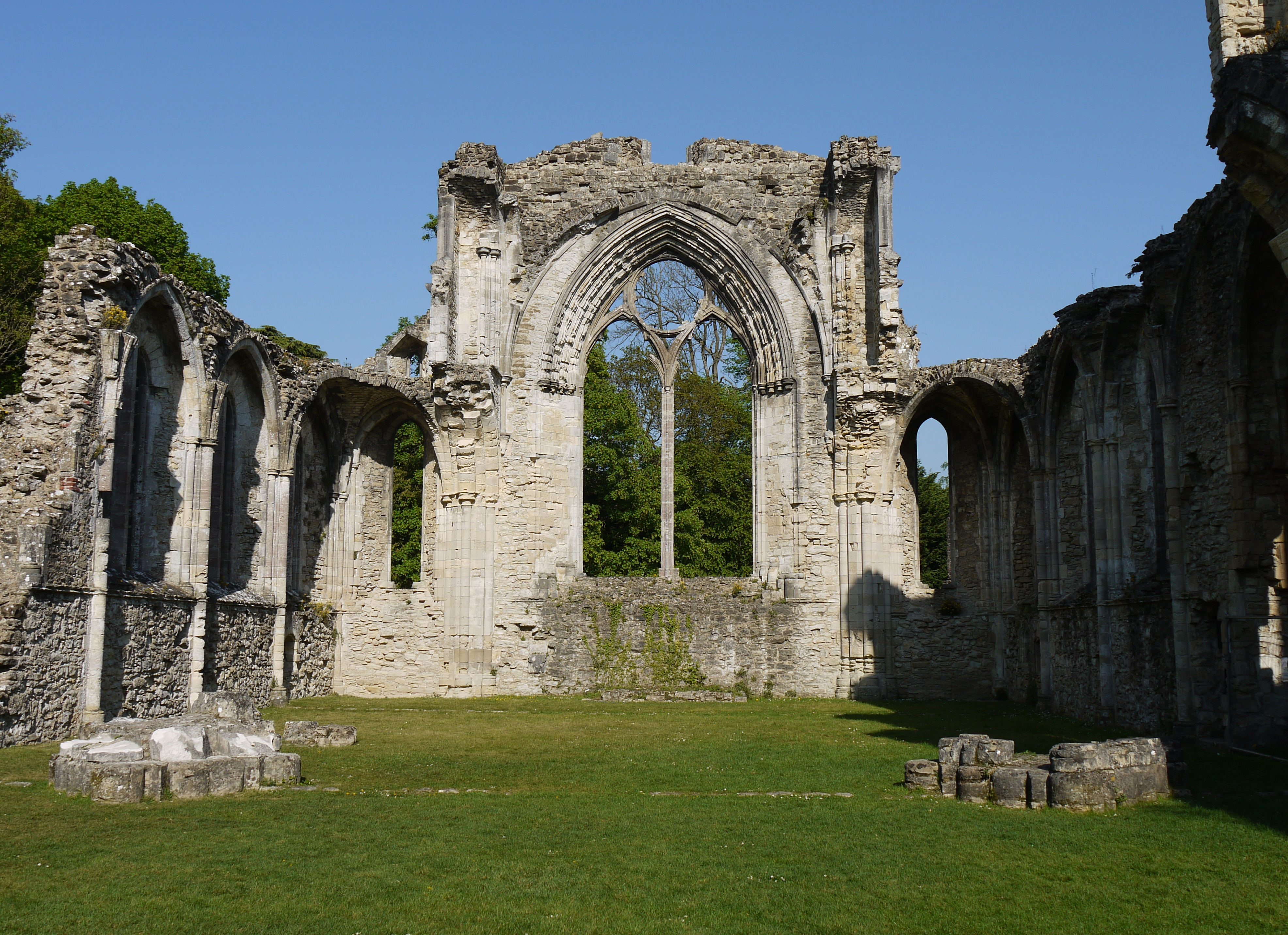 The east window of the church in netley abbey and the walls to either side of it.